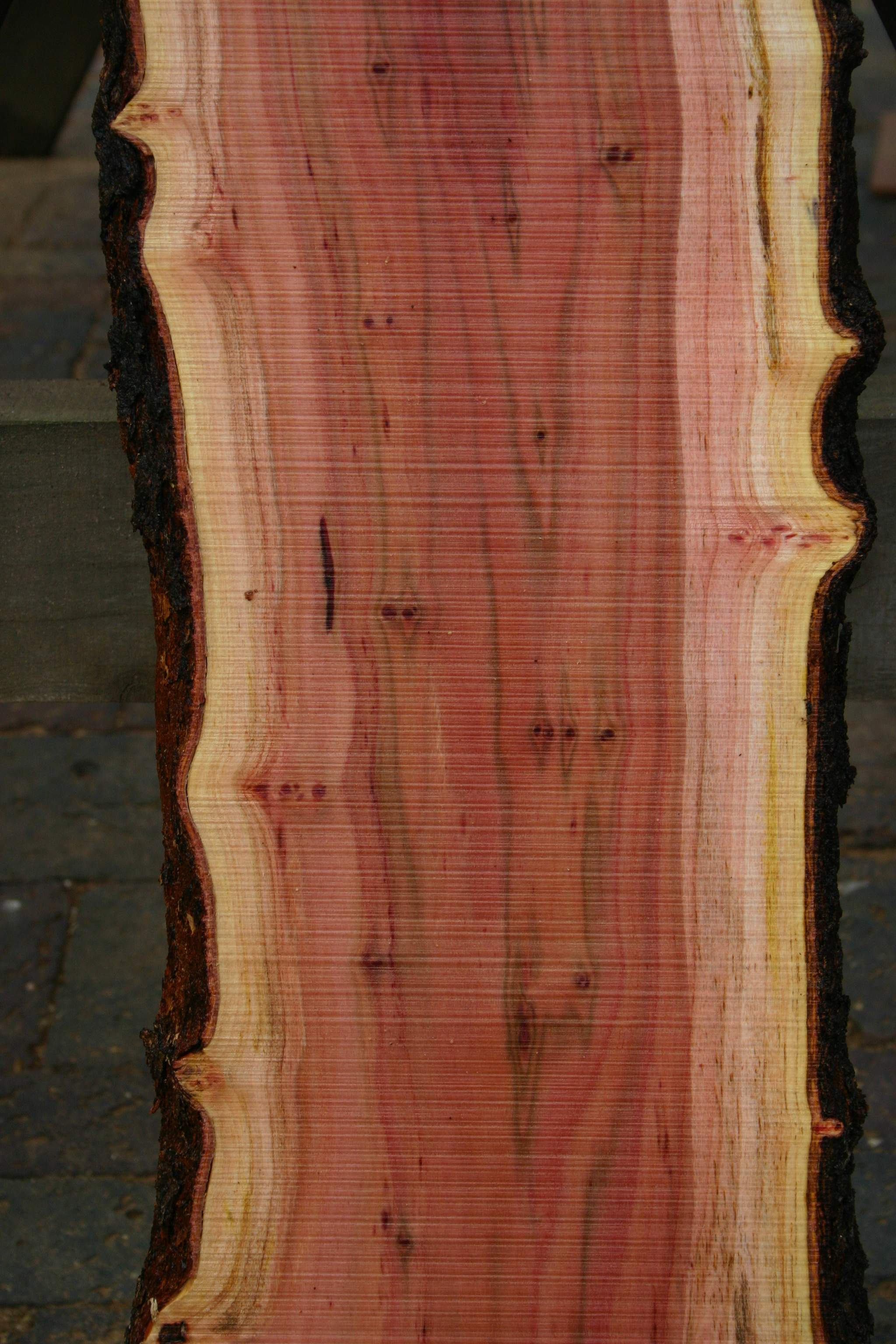 Plank of Searsia lancea (L.f.) F.A.Barkley - Gauteng, South Africa